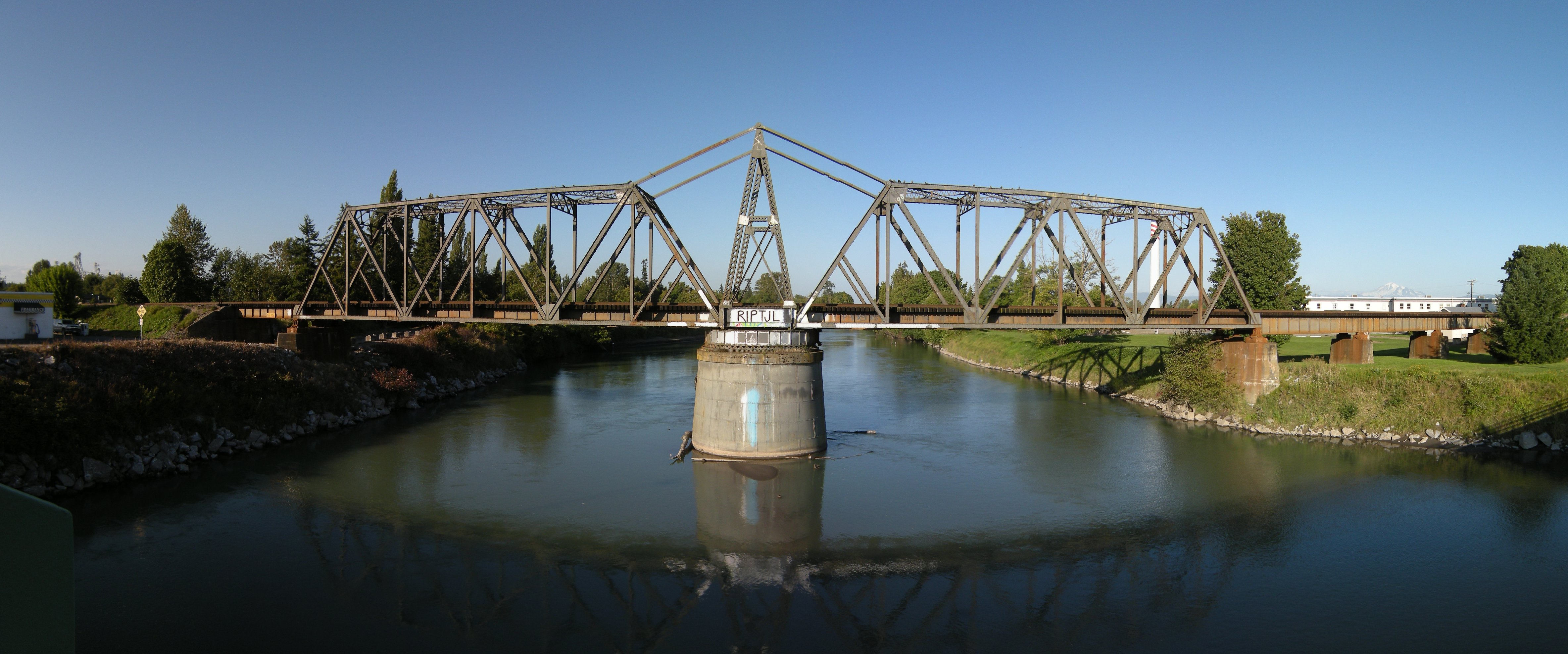 Rail bridge over the Nooksack River, Ferndale, Washington.